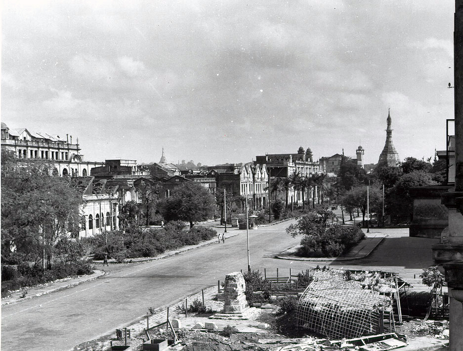 This view from the Custom House front balcony shows the Sule Pagoda at right and in the distance, at left, is the Shwe-da-gon Pagoda, Rangoon's largest and most elaborate. In the immediate foreground, lower right corner of photograph, is the wing structure of a U.S. P-51 Mustang fighter that crashed there, slamming up against the side if the Custom House. We had no indication about the fate of the pilot.